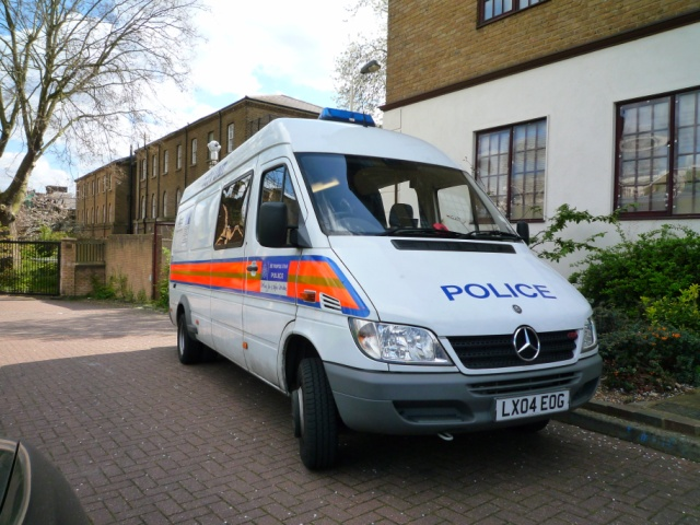 Police CCTV Van, Comer Crescent